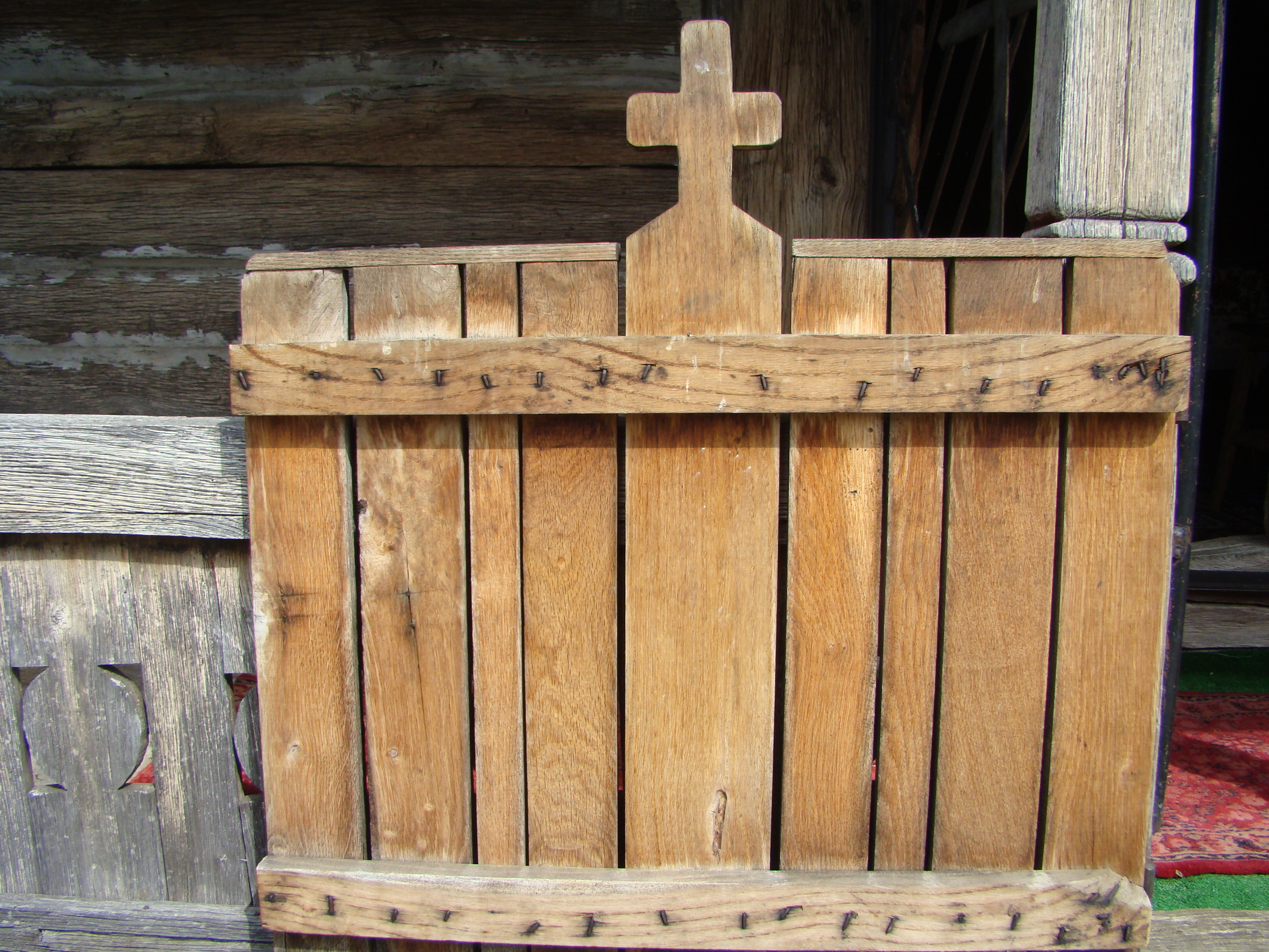 Saint George's church in Rugi, Gorj county, Romania